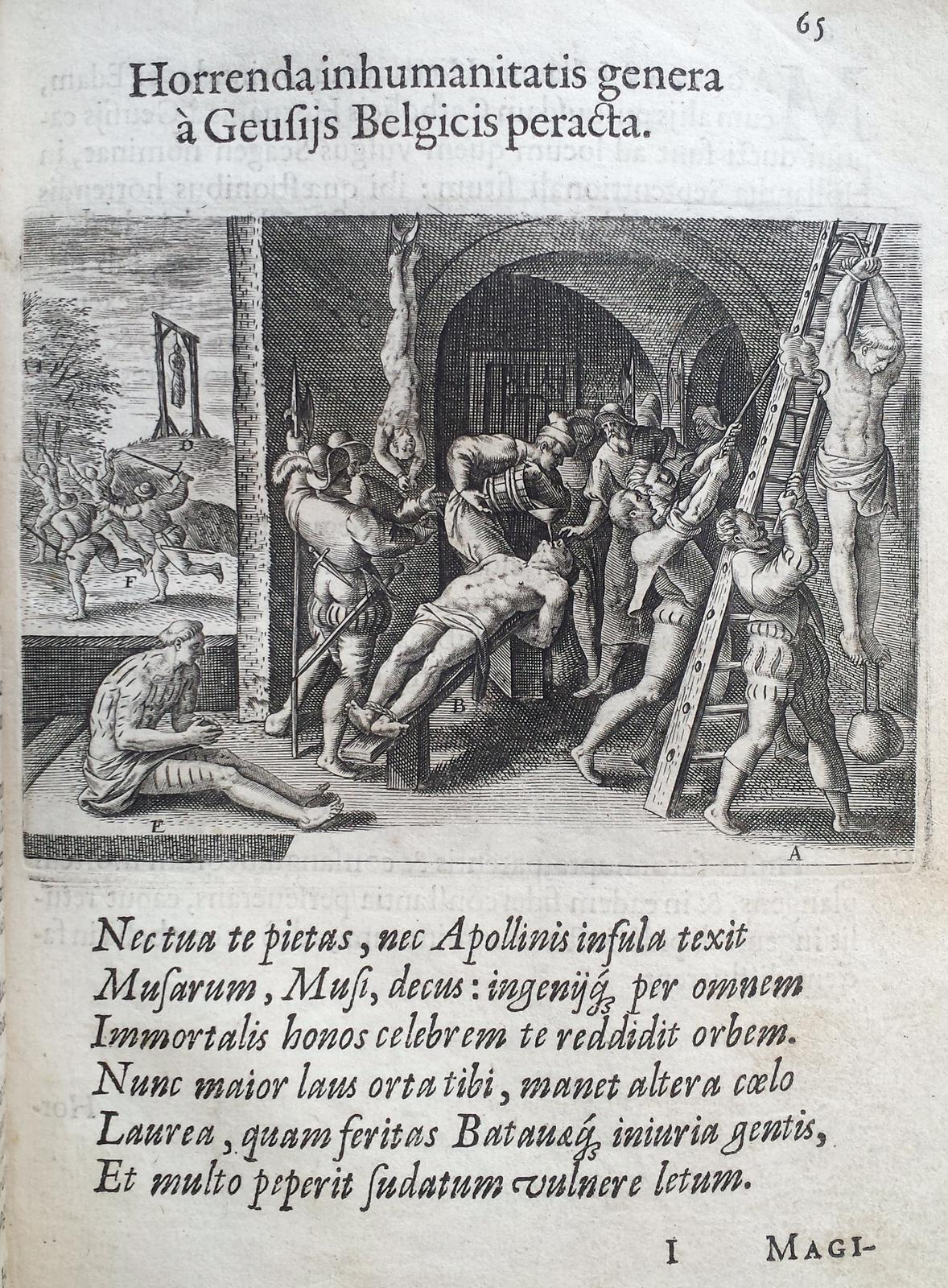 The crimes of the Beggars in the Low Countries; In the centre a monk is being tortured with water, while tied on a bench; to his left a monk is bing hung upside down; to the right anothe monk is hung, with weights on his feet; on the outer left a monk is sitting down, covered in wounds; in the background men are hunting down other monks; a hanging monk on the hill in the background; Latin letterpress on verso; illustration to an edition of the "Theatrum Crudelitatum Haereticorum Nostri Temporis" (Richard Verstegen: 1588). 1588 Engraving